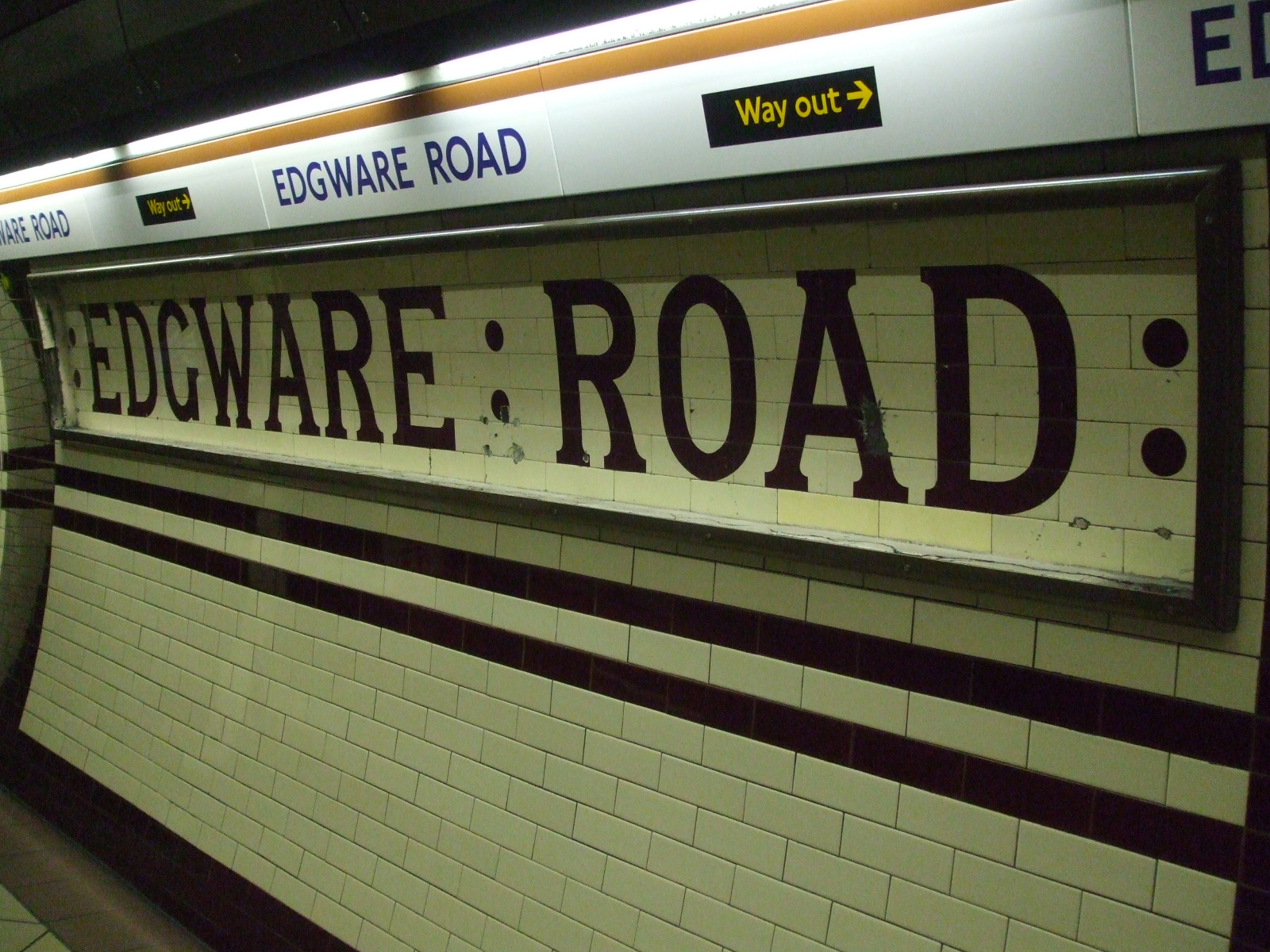 Edgware Road (Bakerloo line) tube station platform tiling decoration. Northbound platform only.